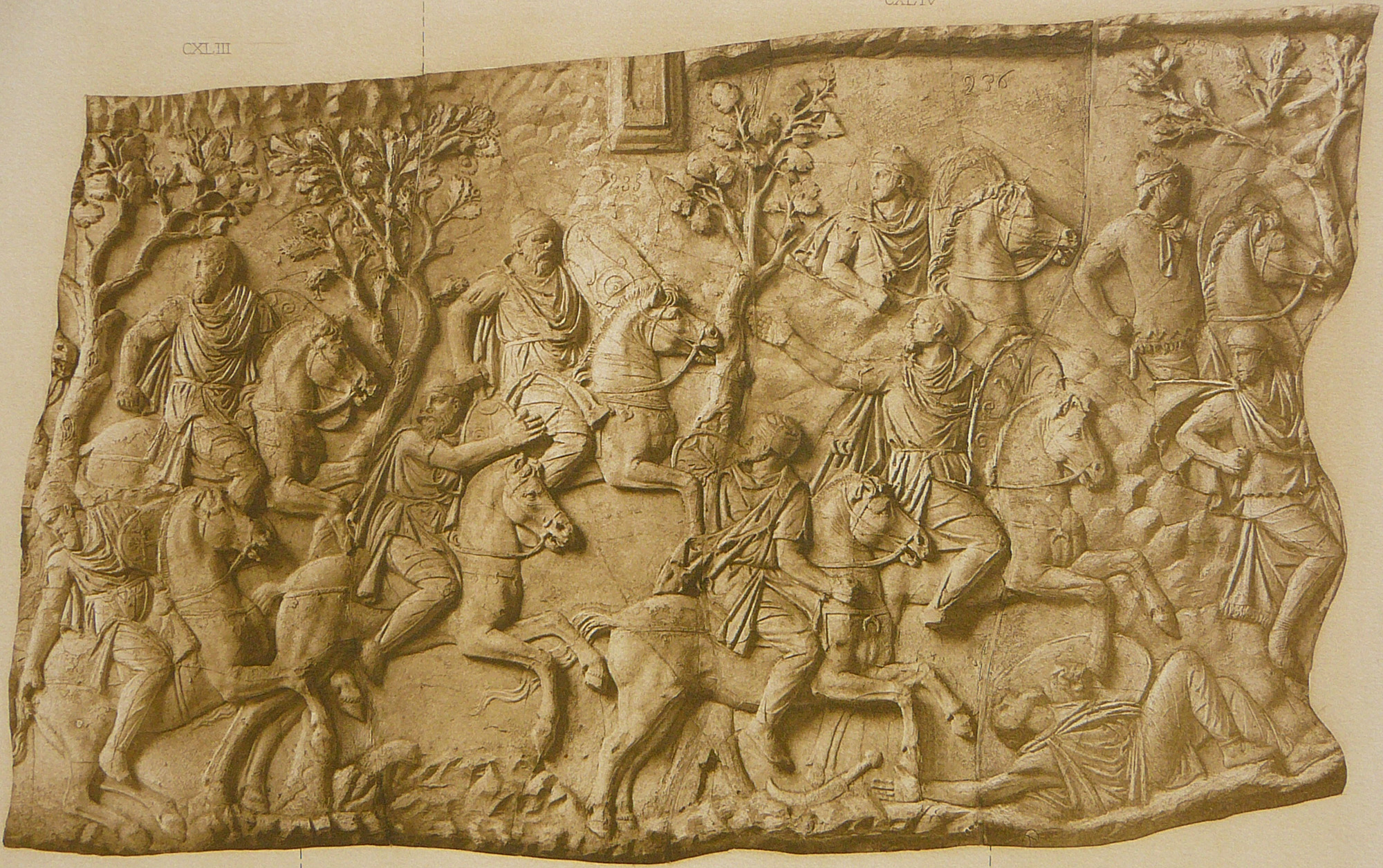 Fight between pursuers and pursued (scene CXLIII); Dacians fleeing on horseback in the mountains (scene CXLIV)